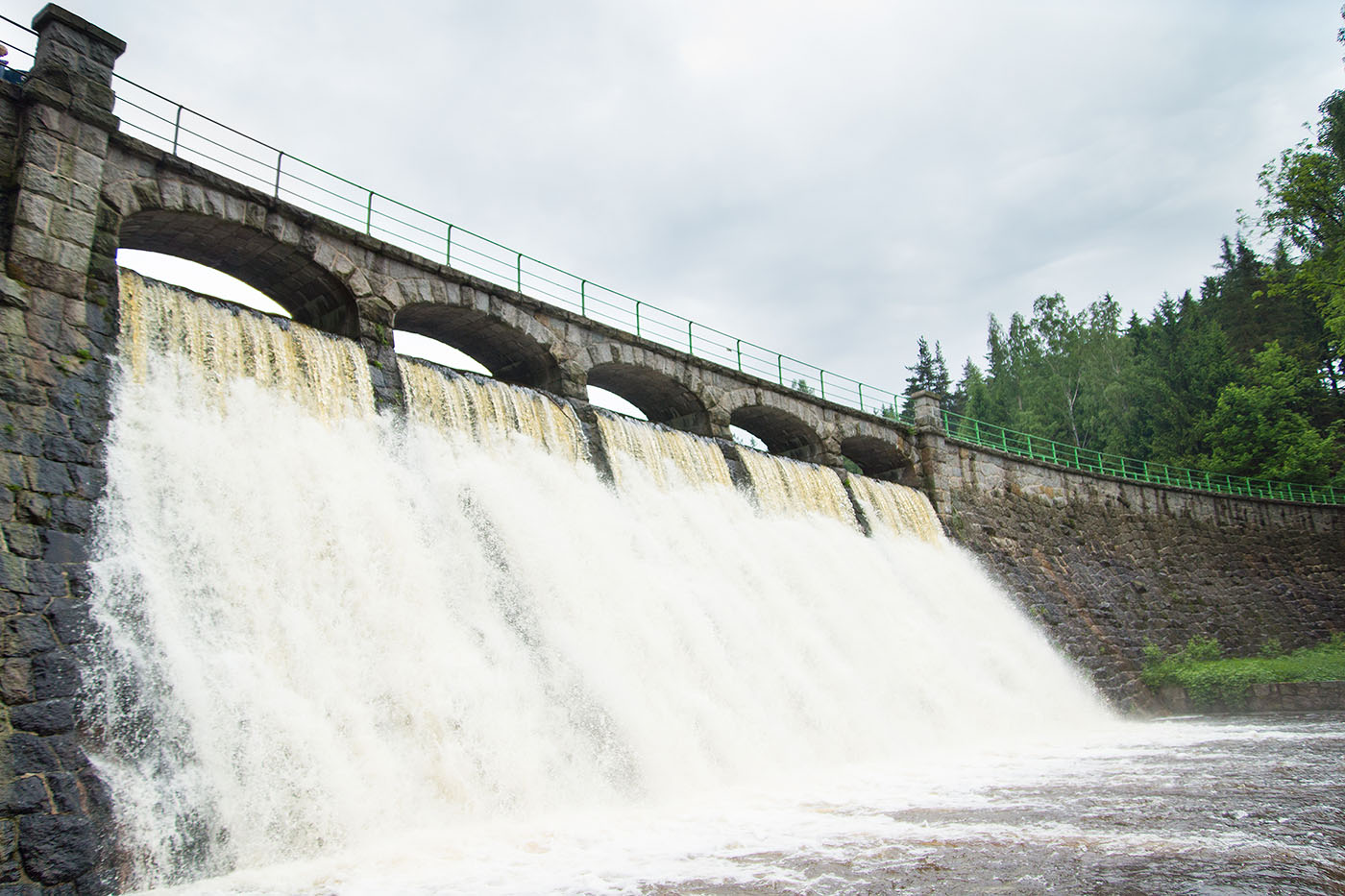 Łomnica Dam, Karpacz - so called "Łomnica waterfall"